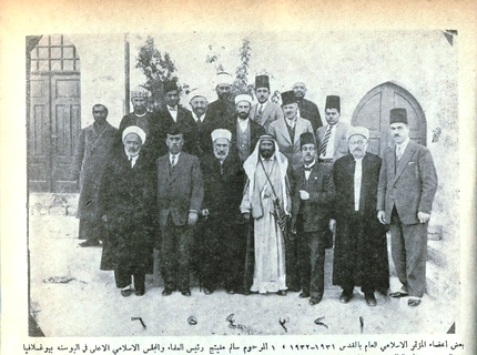 1931 - 1932 Islamic Conference in Jerusalem group picture including from right to left as numbered: (1) Sheikh Salem Muftic, President of the Islamic Scholars and the Supreme Islamic Congress in Bosnia (2) Eltaher, representing the Muslims of Uganda and Aden (3) Hamad Pasha Ben Jazi, Emir of the Huweitat tribe of Transjordan (4) Name not identified (5) Said Thabet, representing Baghdad (6) Name not identified. The others are referred to as being from Albania, Herzegovina and Transjordan.